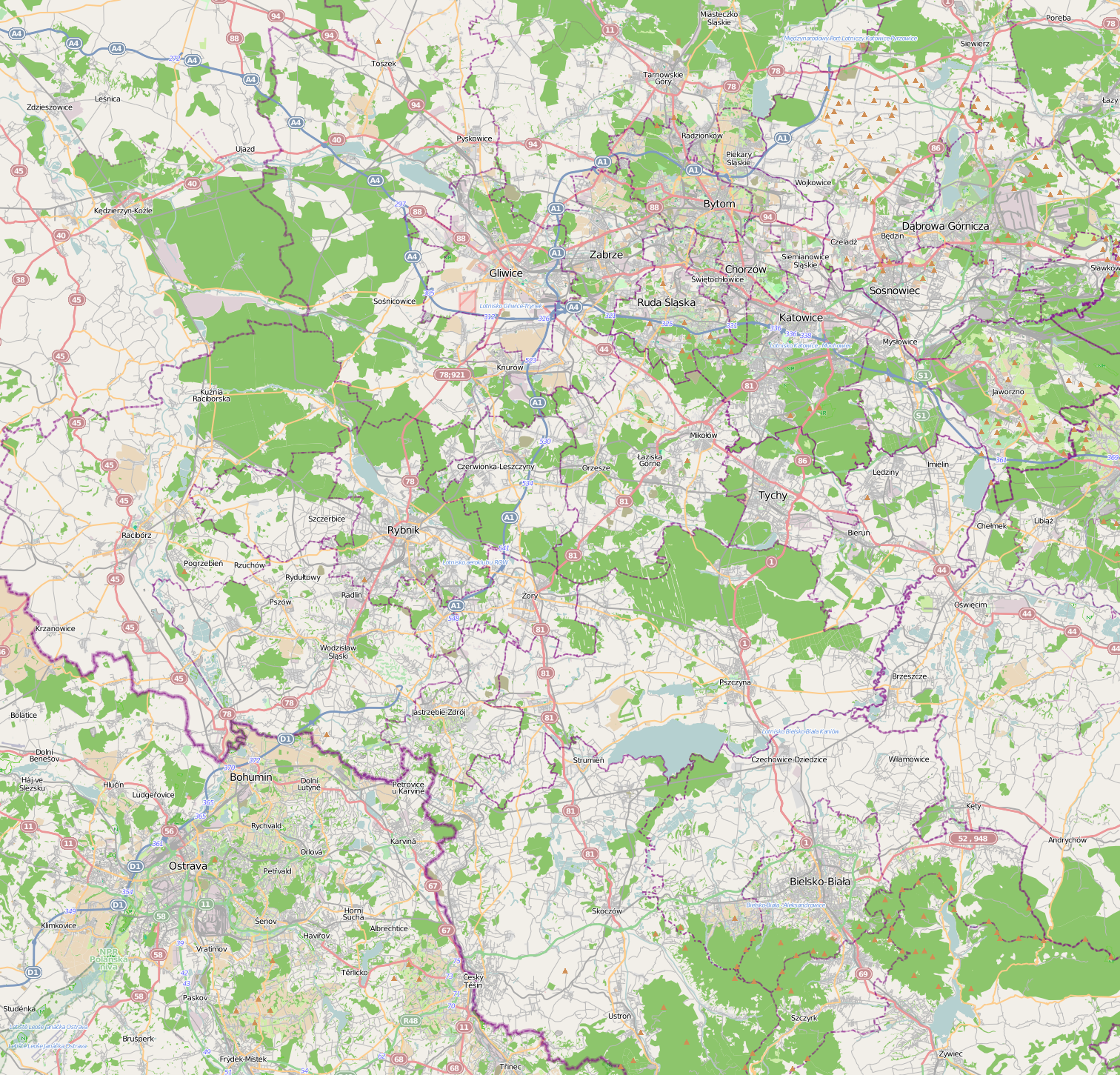 Map of Upper Silesian metropolitan area